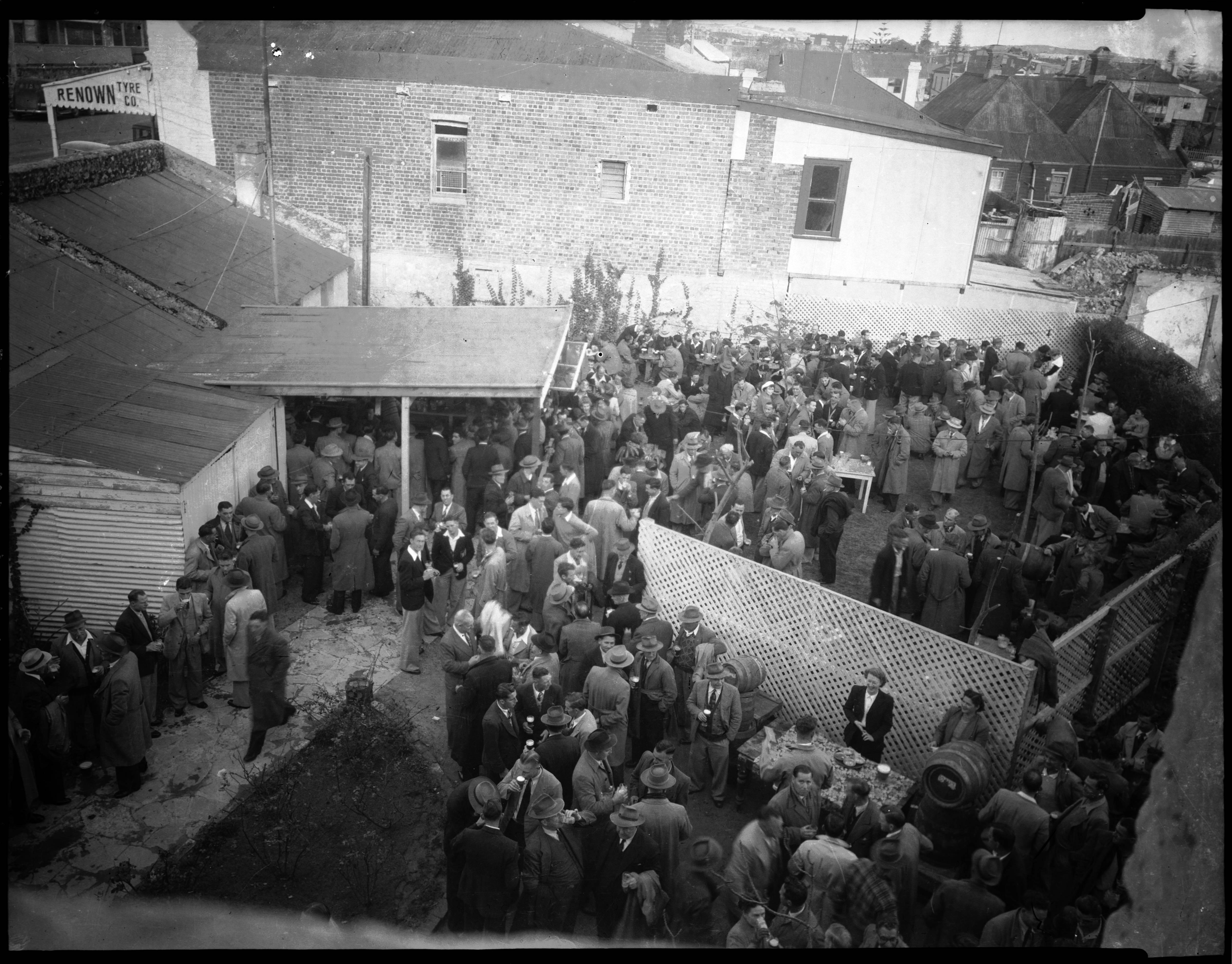 Oddfellows Hotel Fremantle Garden on Derby Day 1953 - built in 1887 and now called the Norfolk Hotel. First owner was George Albert Davies - Mayor and vintner